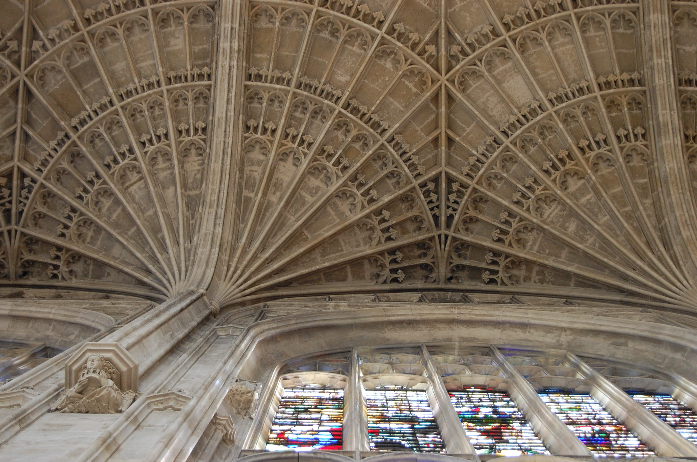 Fan vaulting in King's College Chapel, Cambridge, England